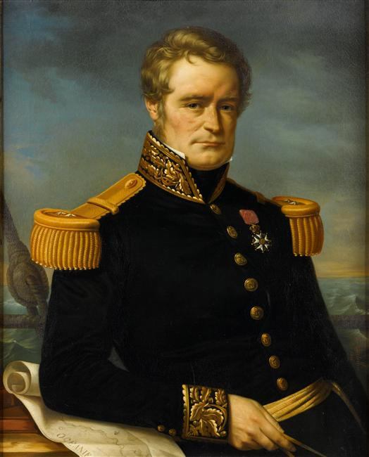 Contre-amiral Jules Dumont d'Urville (1790-1842)